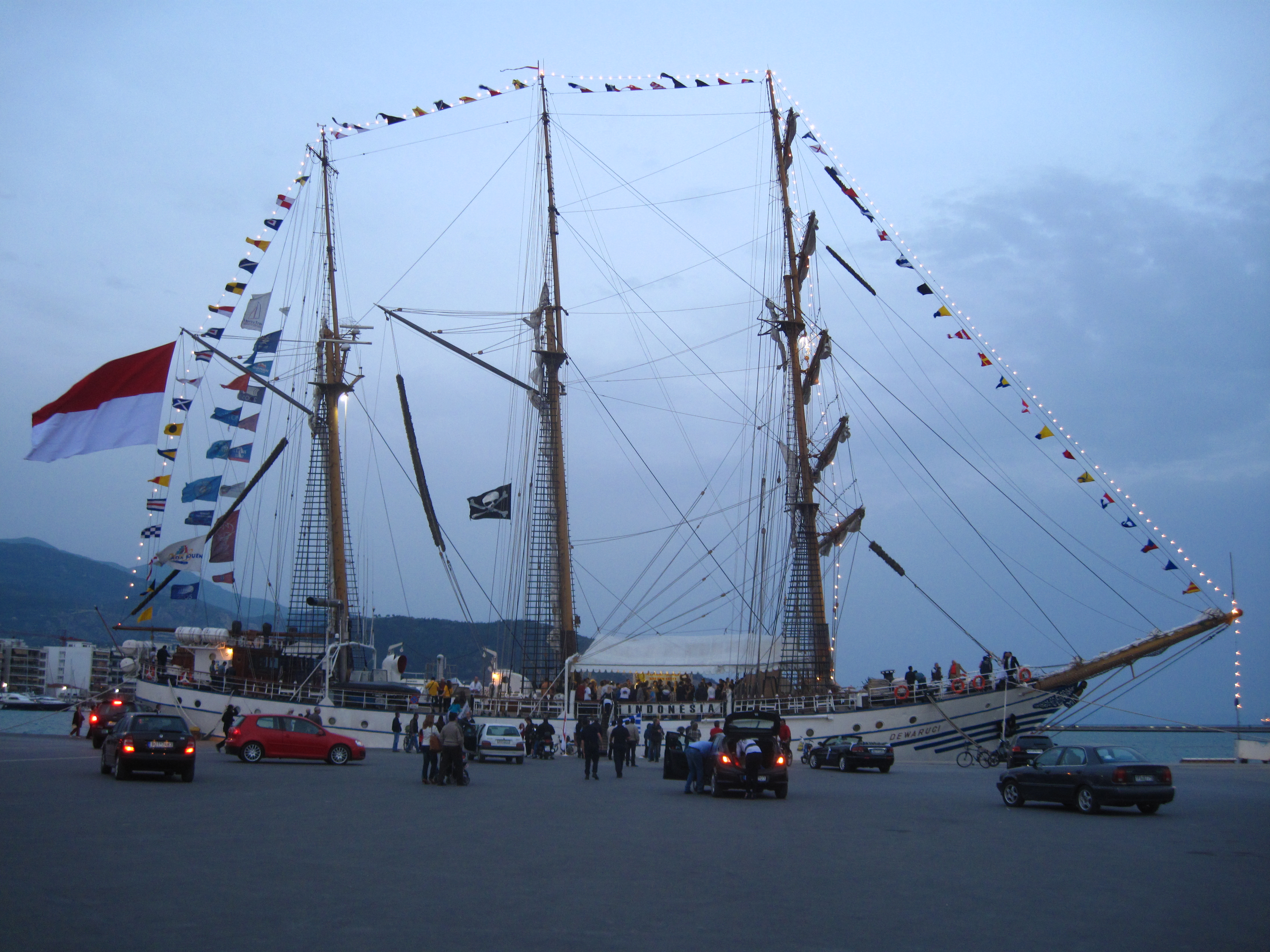 Private sailing ship in Volos, Greece.